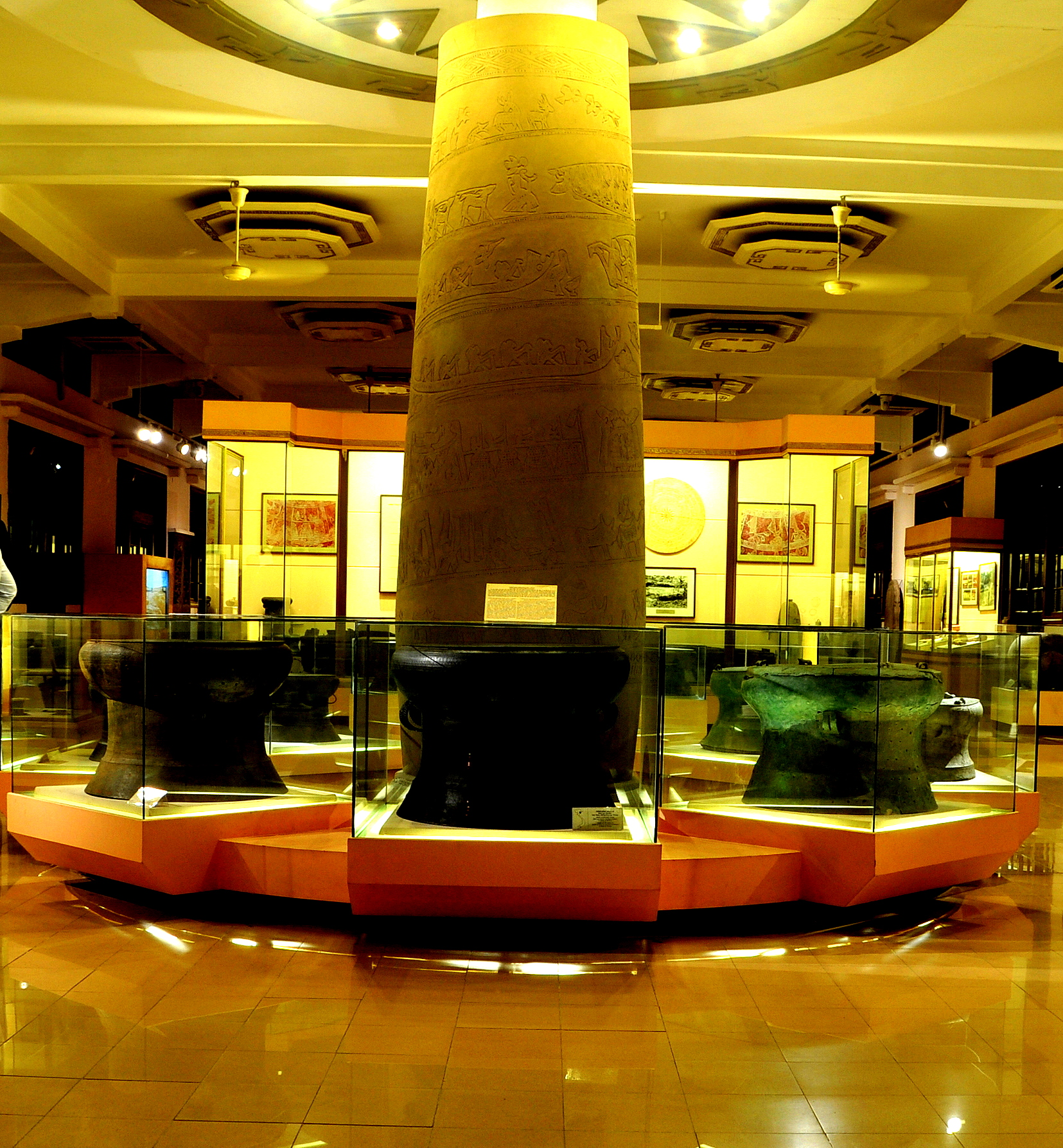 Best viewed with Black background (Slide show). Location: National Museum of Vietnamese history, Hanoi The National Museum of Vietnamese History (Vietnamese: Viện Bảo tàng Lịch sử Việt Nam) is located in the Hoan Kiem district of Hanoi, Vietnam. The museum used to be the museum of the Research Institute for Far-East history under French colonial rule (École française d'Extrême-Orient EFEO). Today, it is a museum showcasing Vietnam's history with a very large display of every period. It is housed in a colonial French building which was completed in 1932. The building, designed by the architect Ernest Hébrard is considered as a successful blend between the colonial French architecture and traditional Vietnamese architecture, called Indochina architecture. He created double-walls and balconies for a natural ventilation system and protection from sunshine.